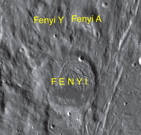 Part of the chart LAC-123 used for the presentation